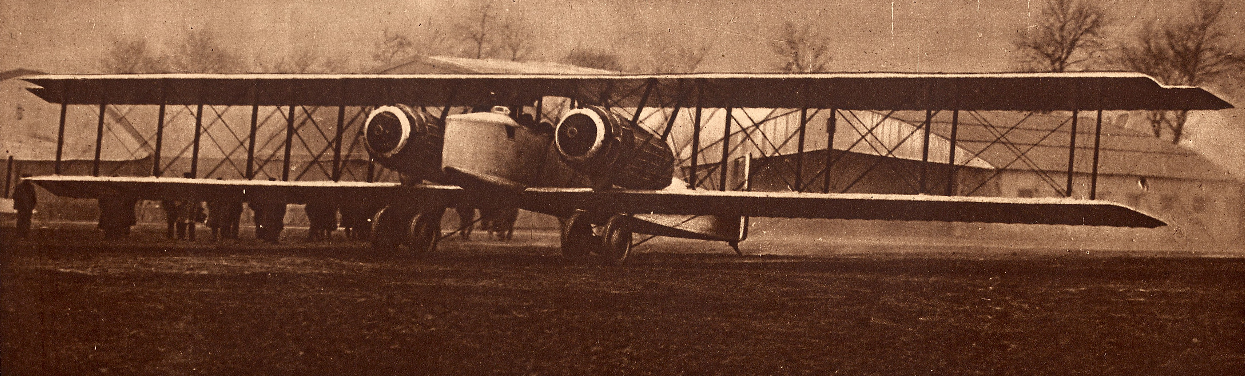 Original caption: Jules Védrines, noted French aviator, and his mechanic, at the moment of starting from Villacoublay, a suburb of Paris (This was Jules Védrines last flight, he crashed in this plane.)